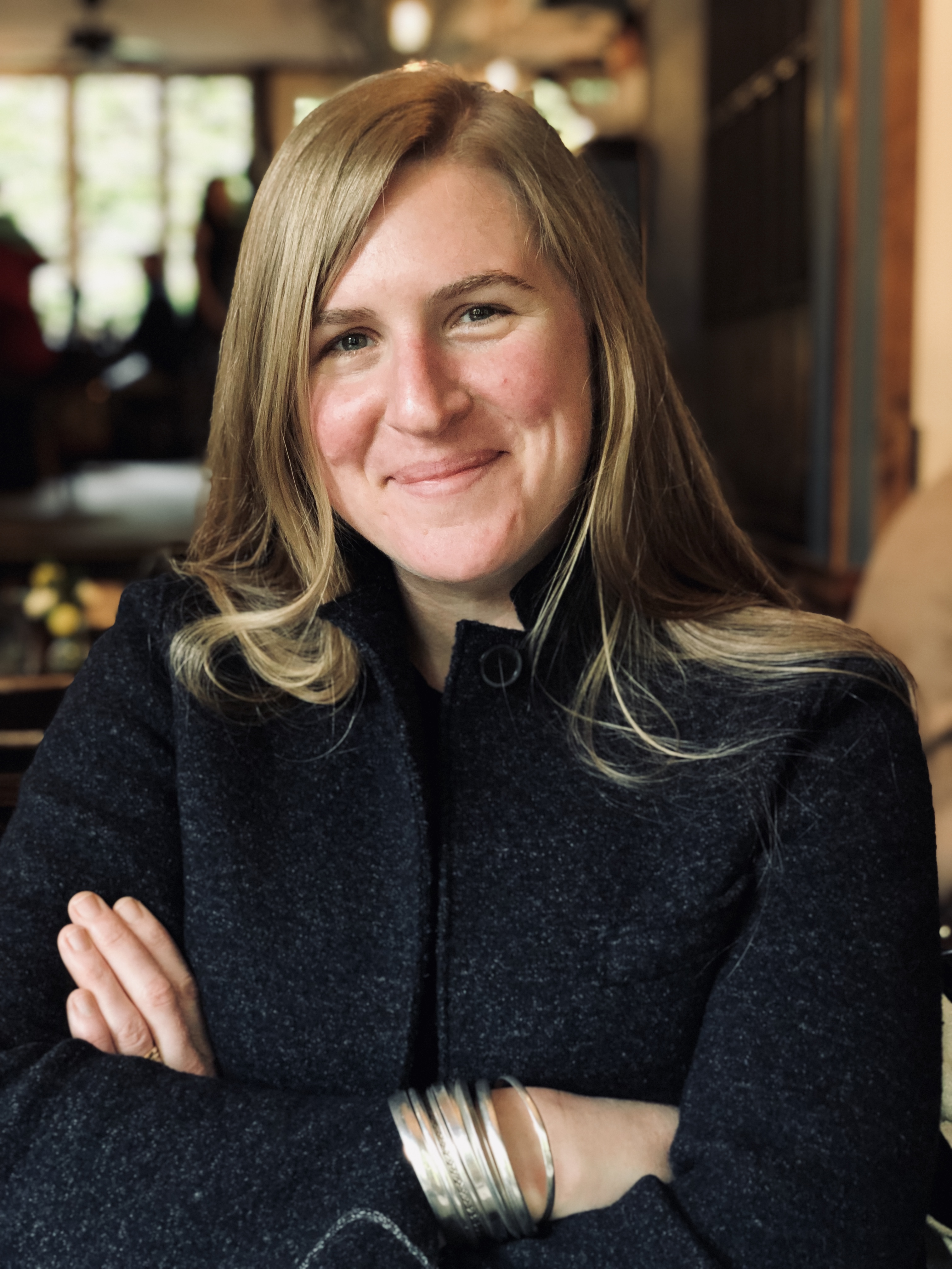 Phoebe Judge in January 2020.